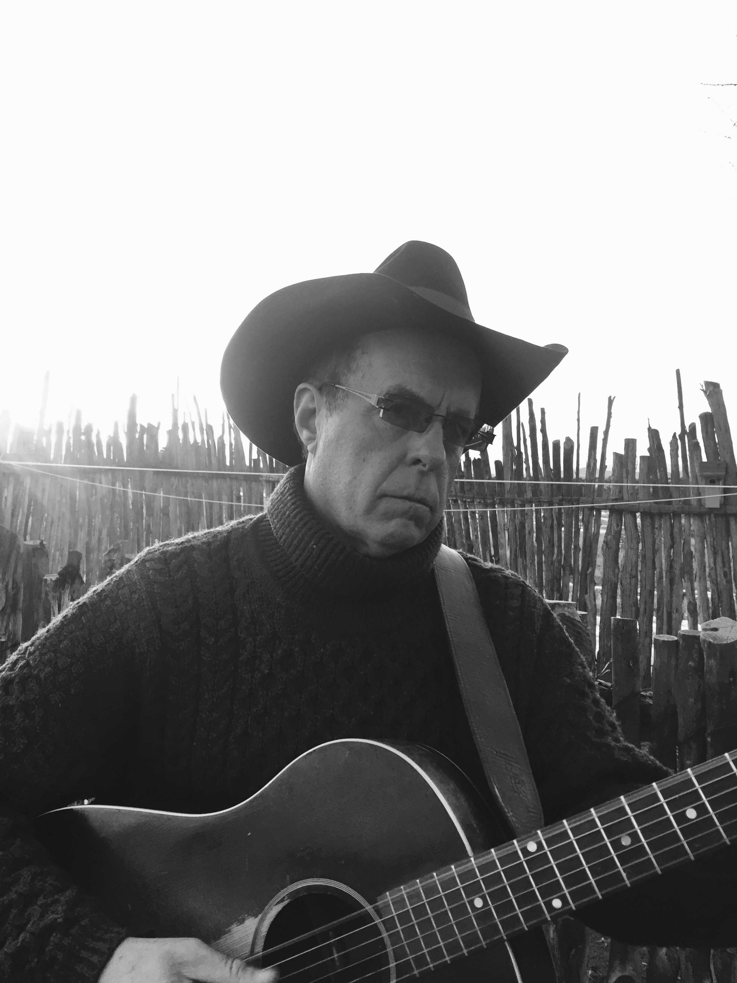 Tom Russell